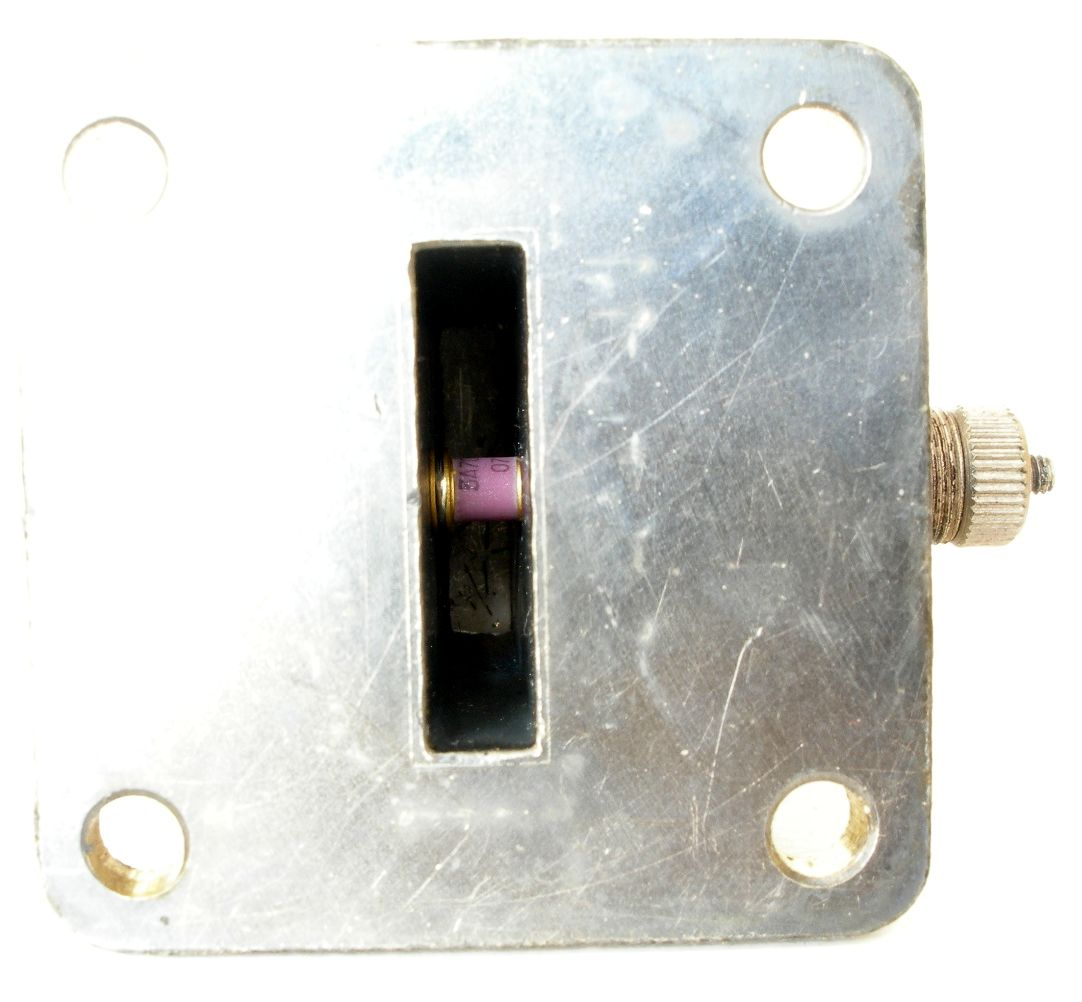 A Gunn diode microwave oscillator M31102-1. It consists of a Gunn diode (visible in center) mounted in a cavity resonator, biased with a DC voltage. The negative resistance of the diode cancels the positive resistance of the cavity, exciting microwave oscillations at the resonant frequency of the cavity. The microwaves radiate out the aperture into a waveguide which is bolted to the front (not shown).